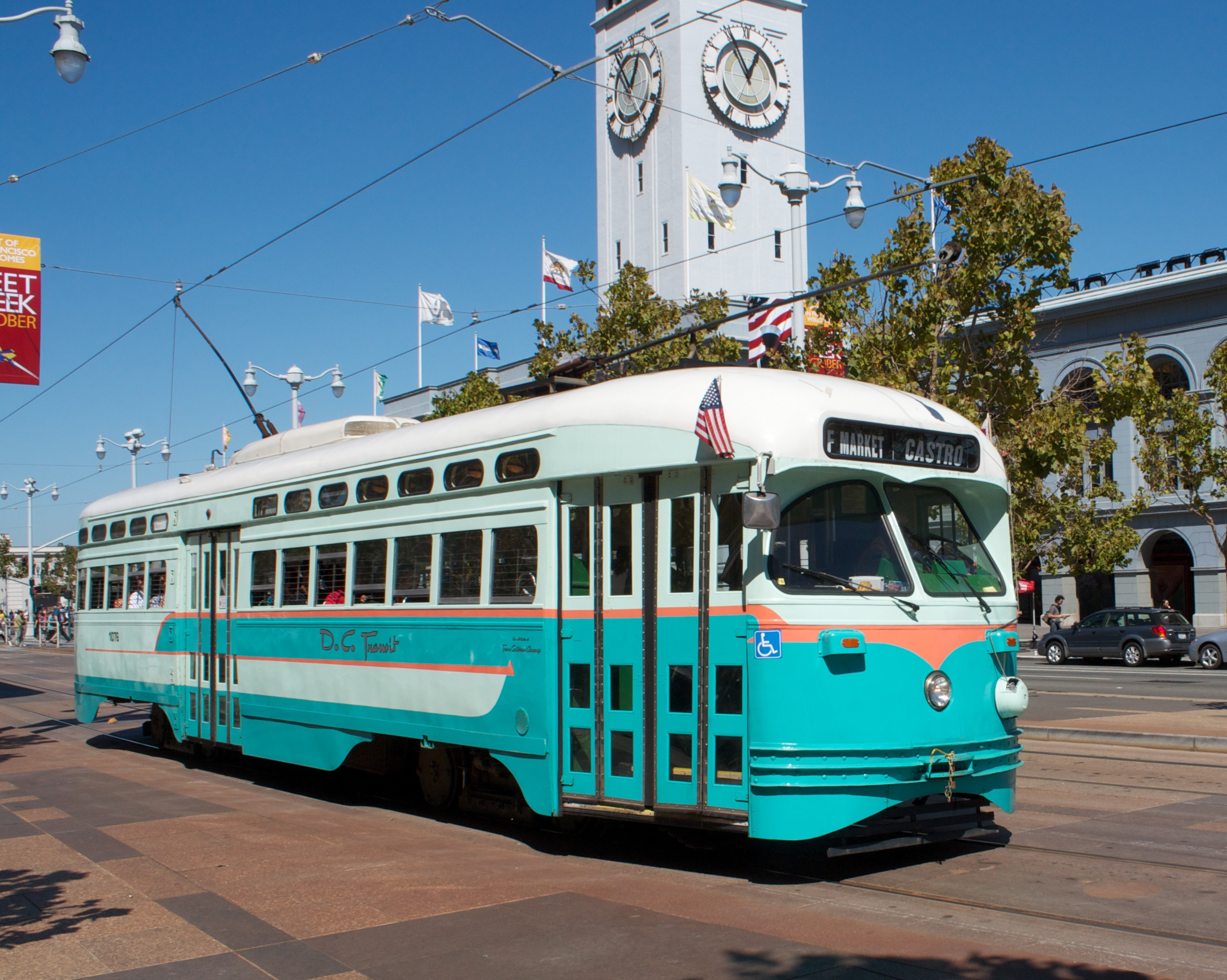 Car Number 1076 of SF Muni, wearing Washington DC Transit livery. It is southbound on the Embarcadero, in service on the F-Line. The Ferry Building is in the background. This is a 1946-built, ex-Newark, ex-Minneapolis PCC-type streetcar that has been painted in the former paint scheme of DC Transit (in Washington, DC) for its use as a heritage streetcar on San Francisco's F-line. (It was never used in Washington, DC, but PCC-type streetcars were used there.)